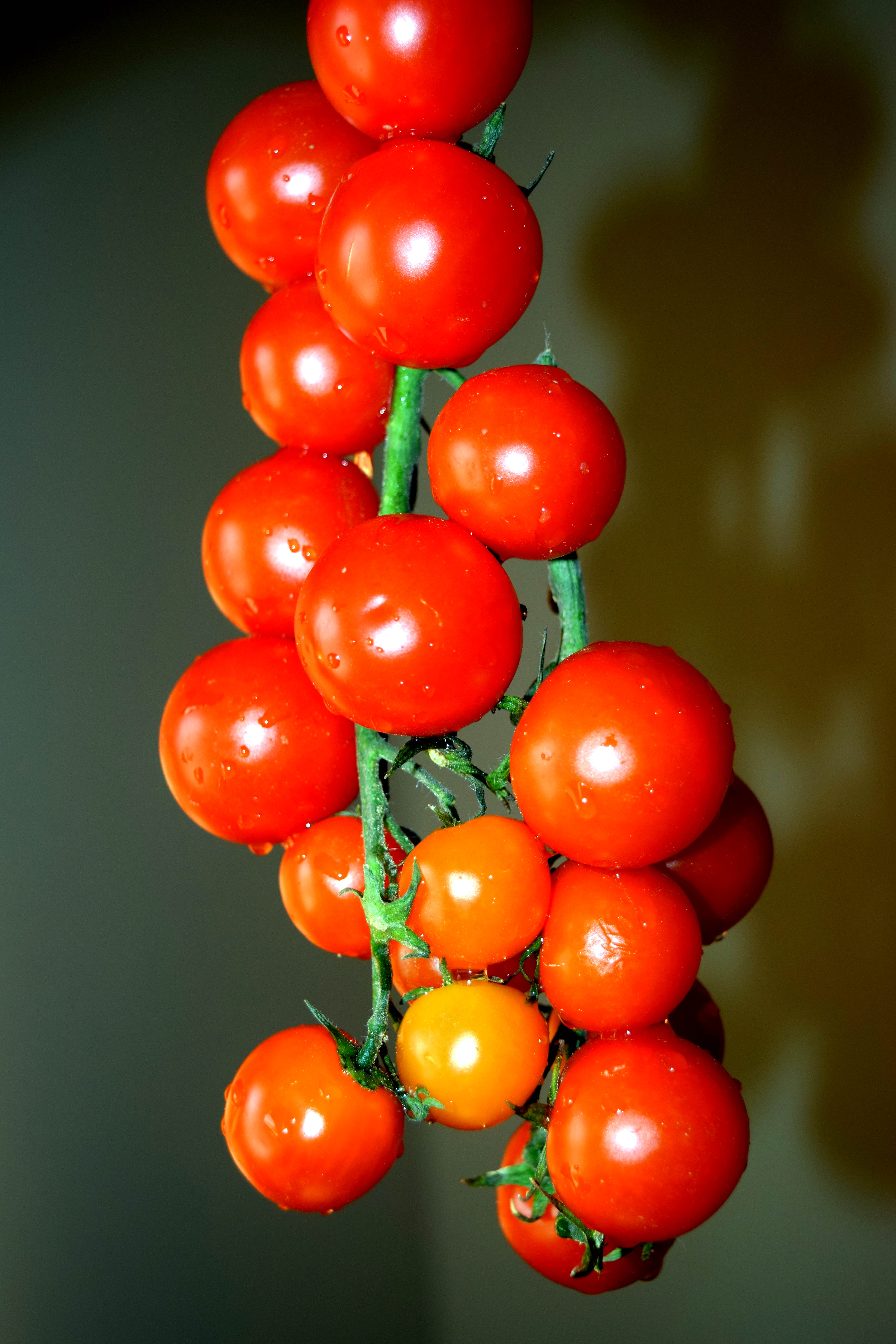 A cherry tomato is a rounded, small fruited tomato thought to be an intermediate genetic admixture between wild currant-type tomatoes and domesticated garden tomatoes